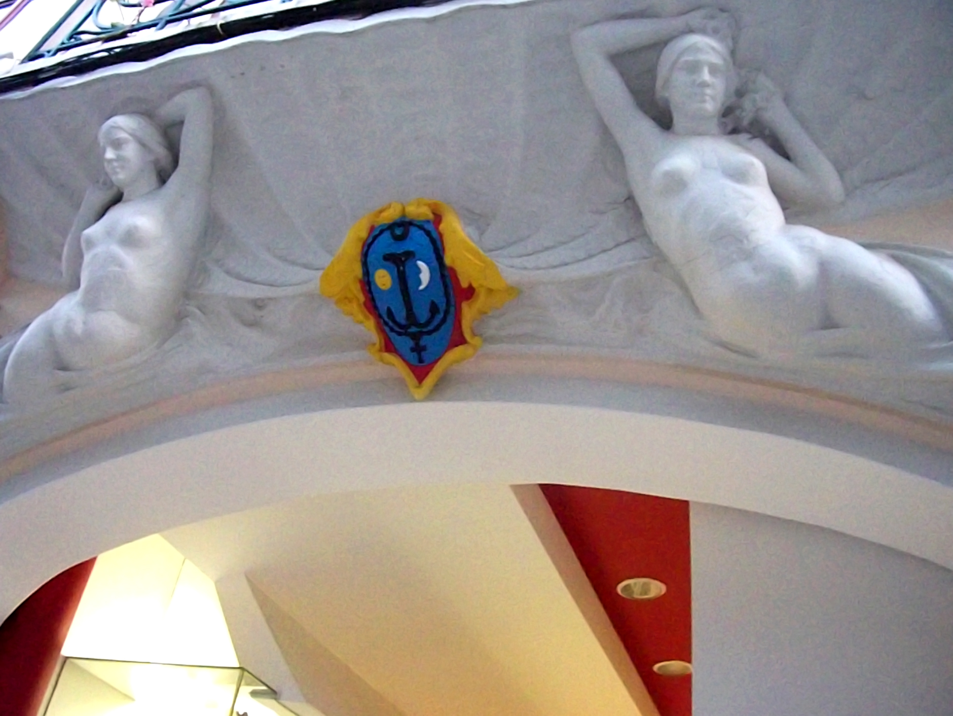 Coat of Arms of Póvoa de Varzim in an old store in Rua da Junqueira, Povoa de Varzim